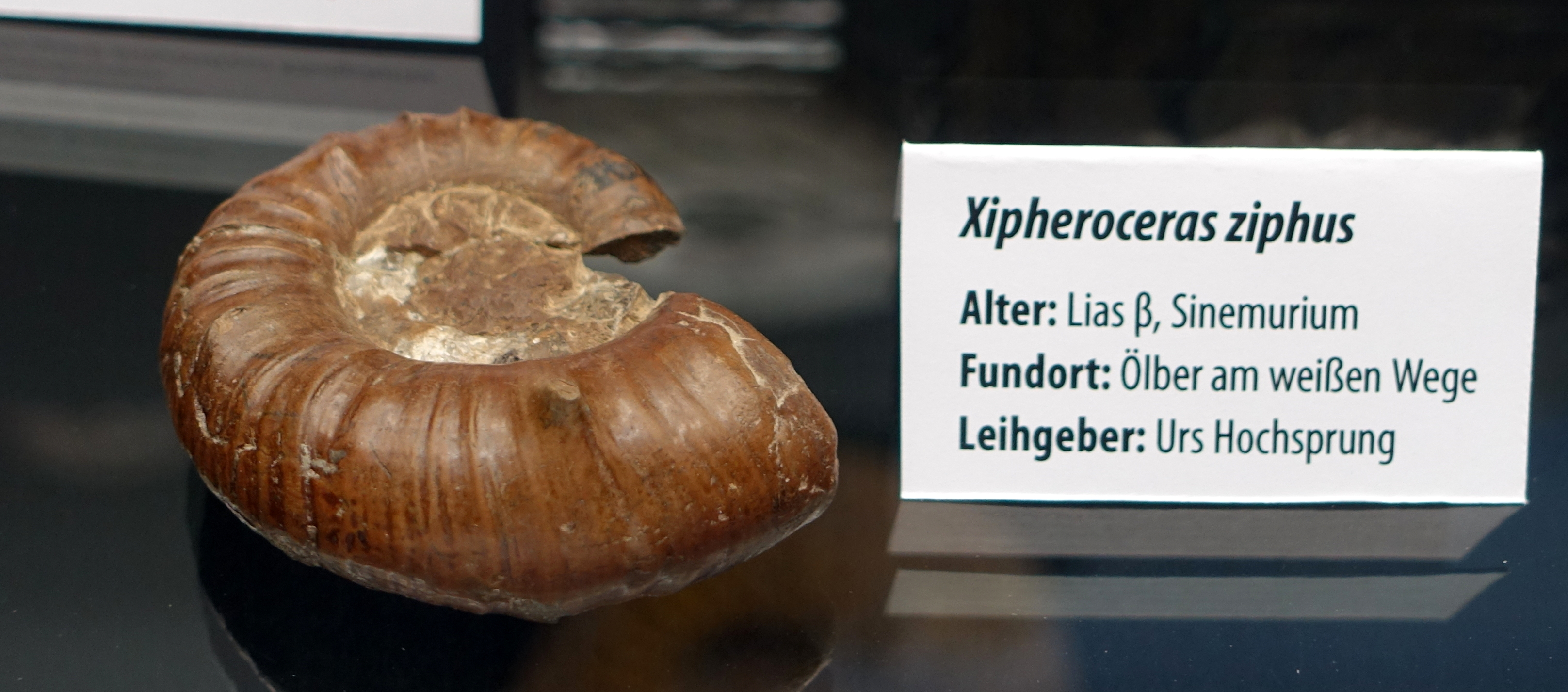 Exhibit in the Naturhistorisches Museum, Braunschweig, Germany.